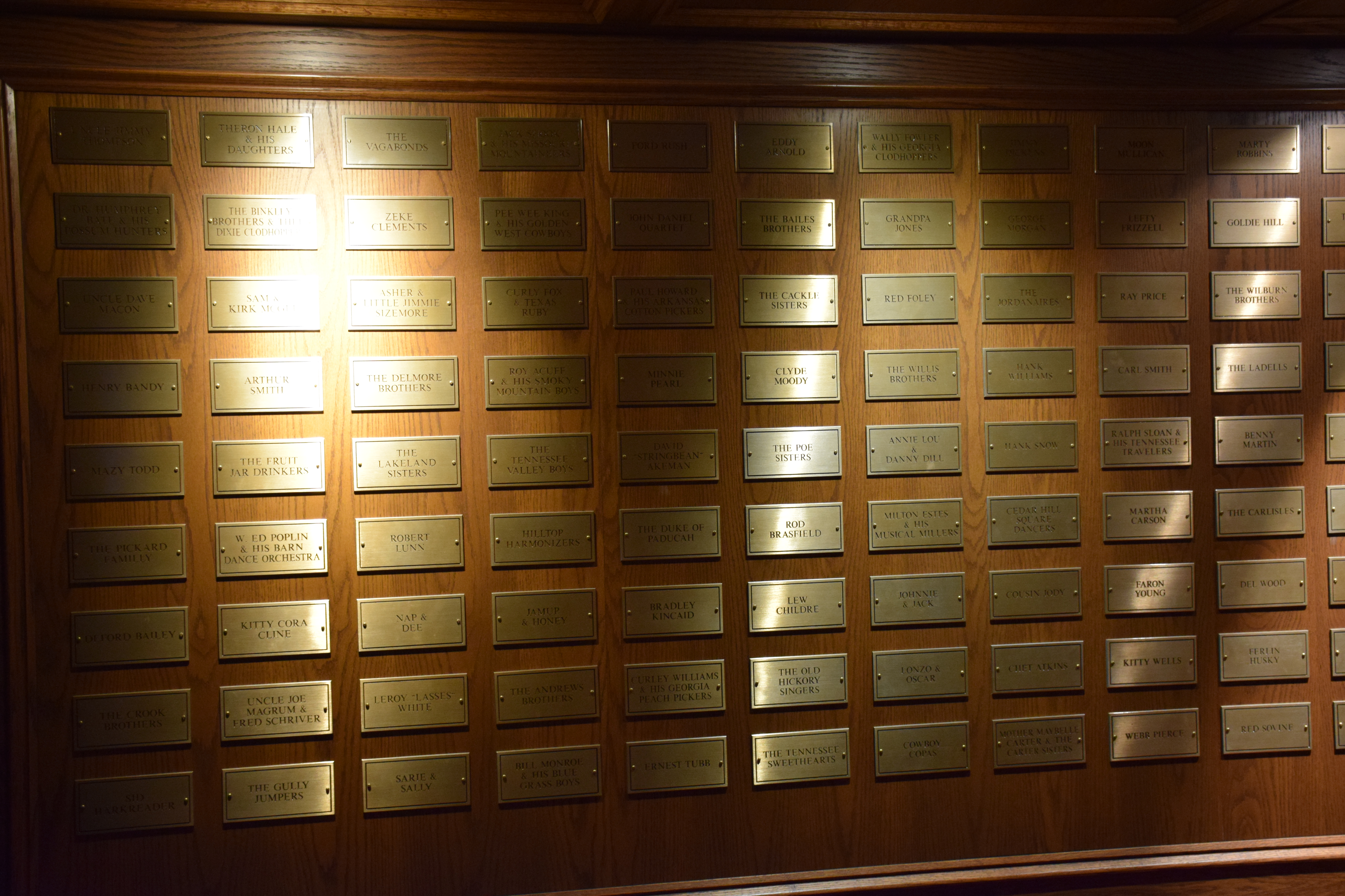 Grand Ole Opry Former Members Plaques, Opry House, Nashville, 2016